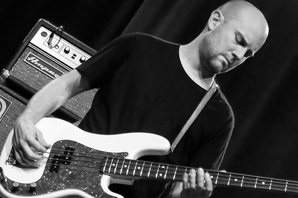 Johan Berthling playing with FIRE trio in Aarhus, Denmark 2016